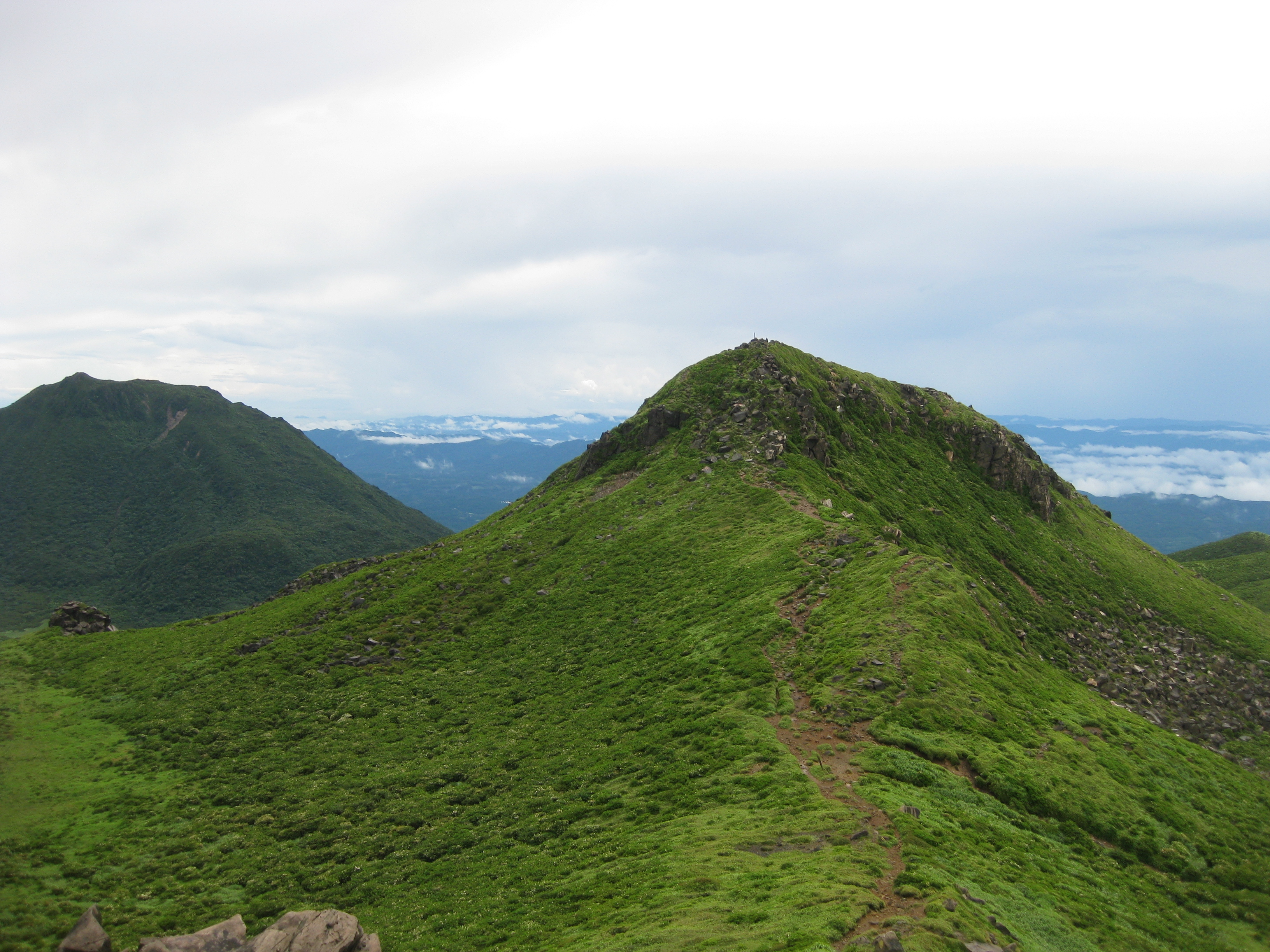 Nakadake from Tengugajo(5930ft)